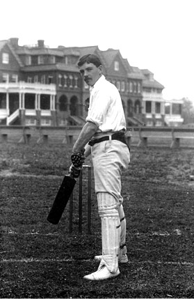 American cricketer John A. Lester in front of the main building of the Merion Cricket Club in Haverford, Pennsylvania.